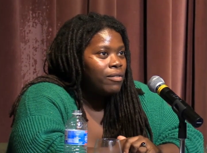 American writer Kaitlyn Greenidge at the Cambridge Friends School's panel "Our Deepest Concerns: A Conversation on Anti-Racism in America"